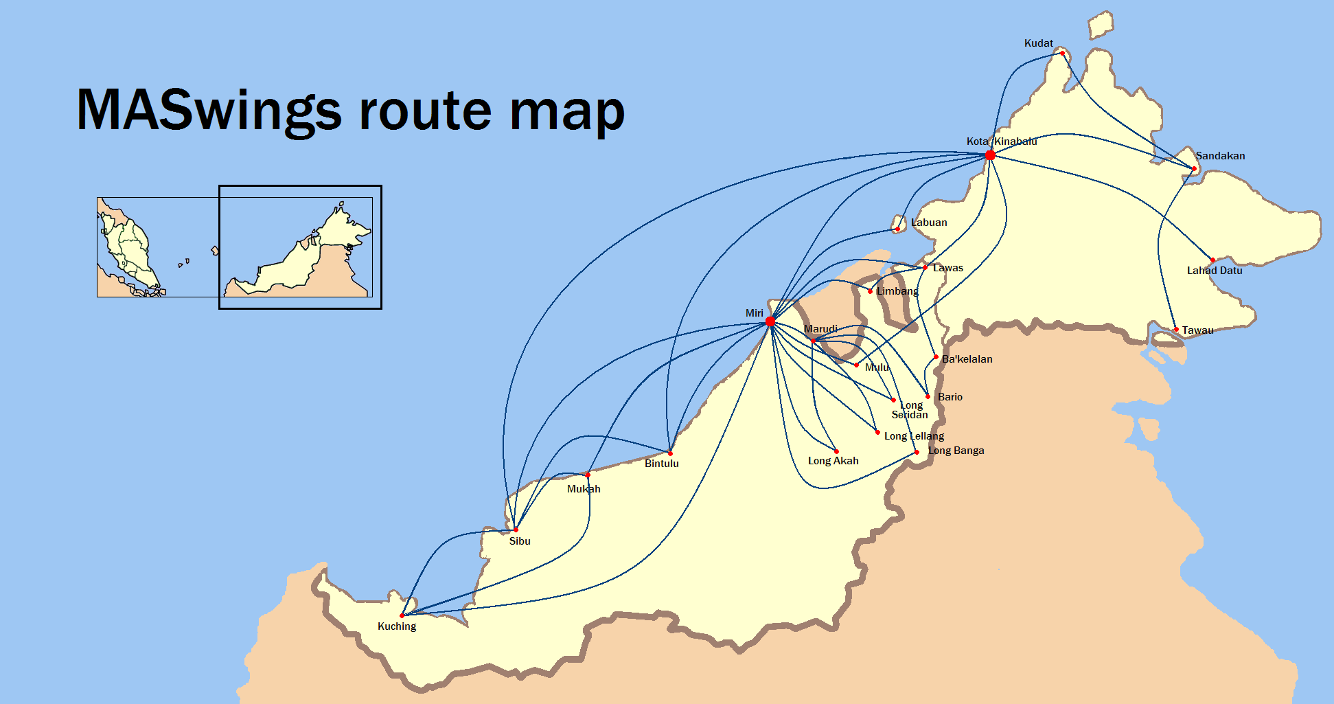 Maswings route map